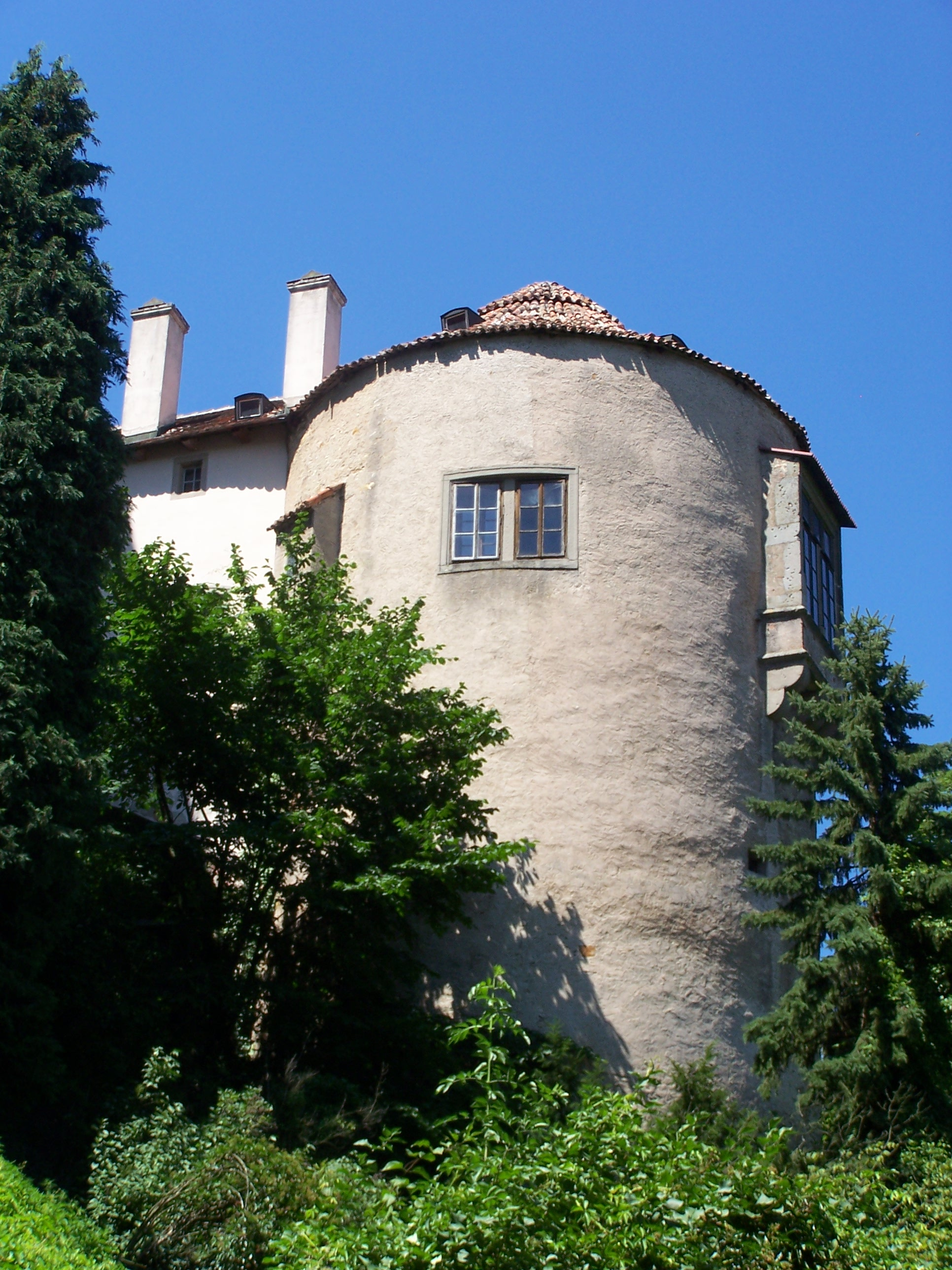 Studniční věž